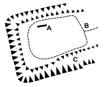 Diagram of remains of Caludon castle, after Northampton Archaeology Geophysics survey, 2008